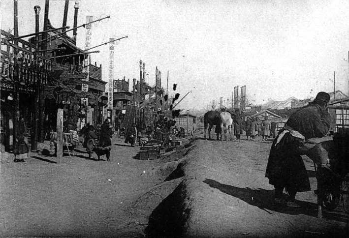 Image from La Chine à terre et en ballon.